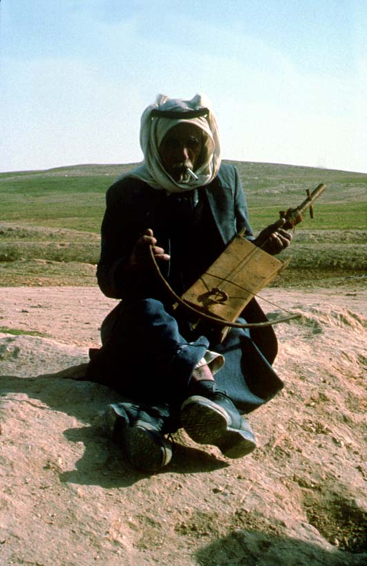 Art of Israel